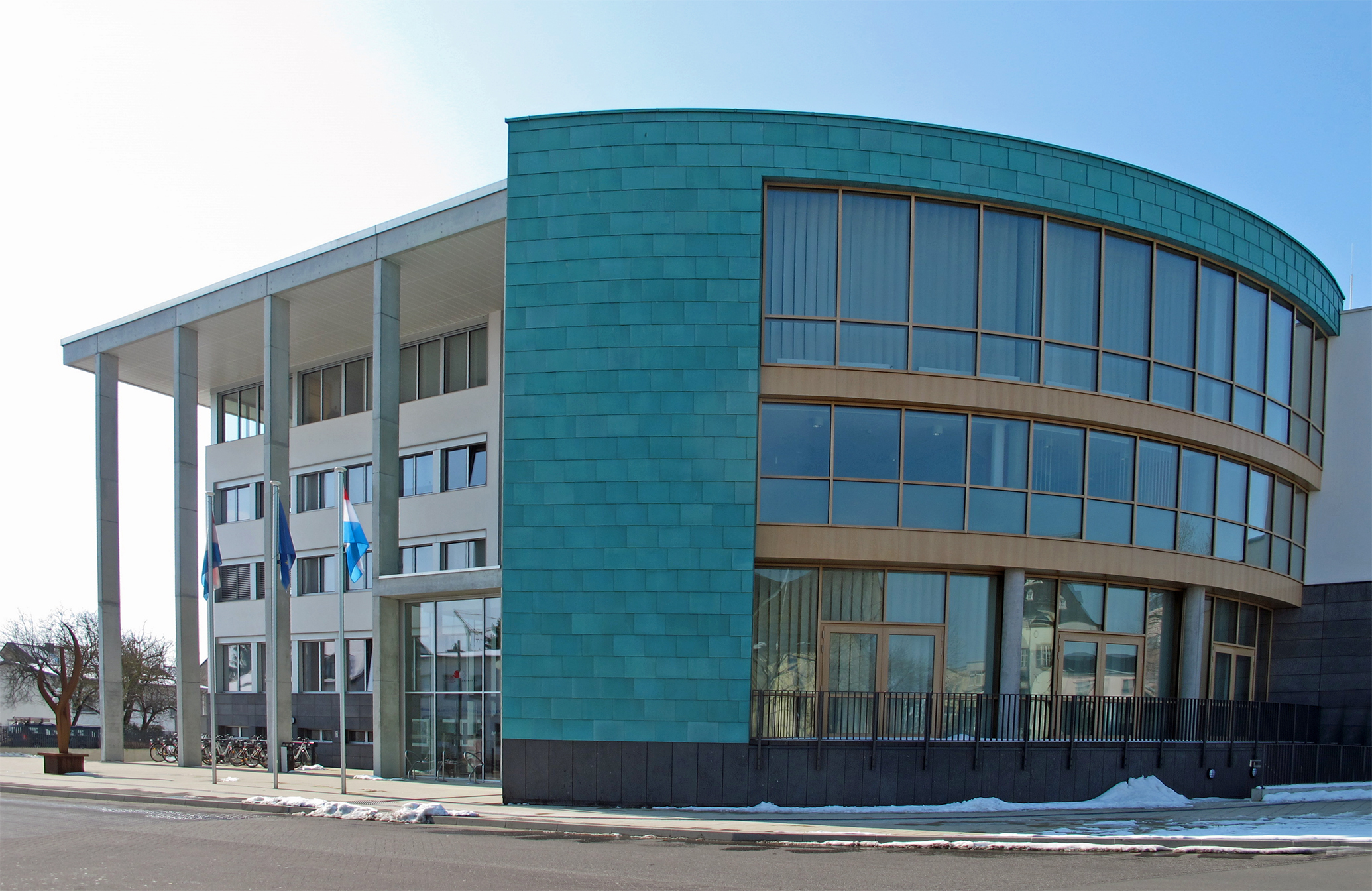 Town hall of Bertrange, Luxembourg